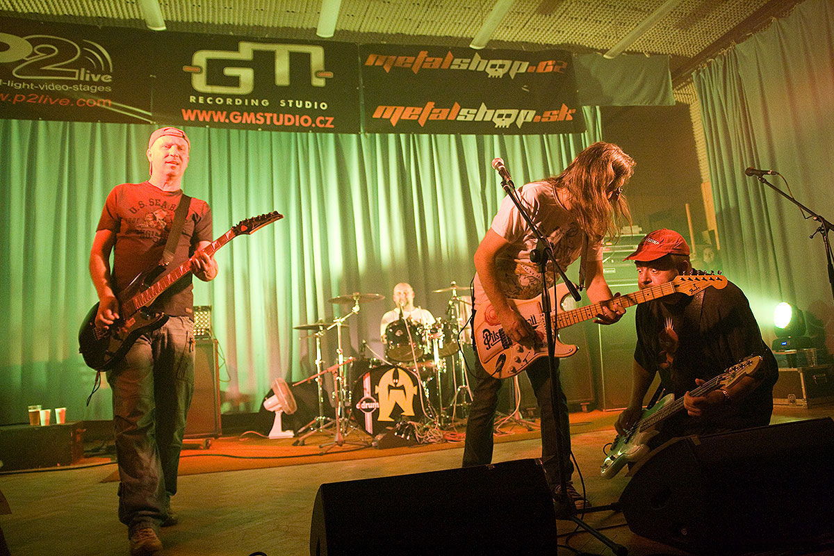 Alkehol 4. 11. 2010 in the Barrocko club (EU - Czech Republic - Třinec).